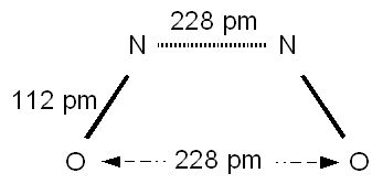 nitric oxide dimer : data from Greenwood Chemistry of the elements NO N2O2